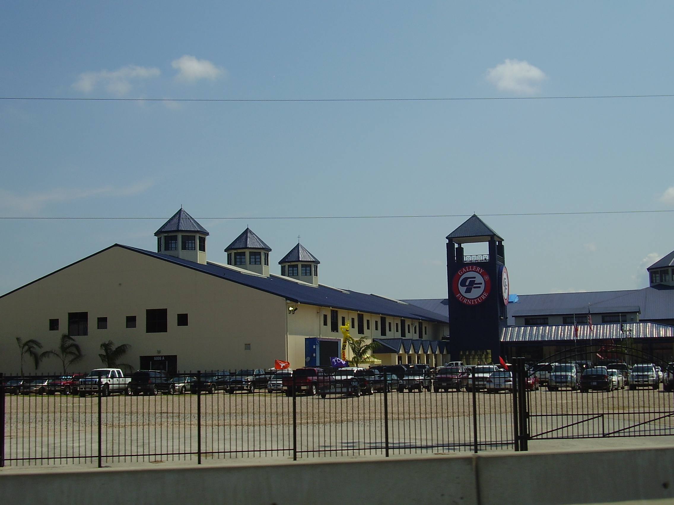 Main Gallery Furniture facility in Northisde Houston